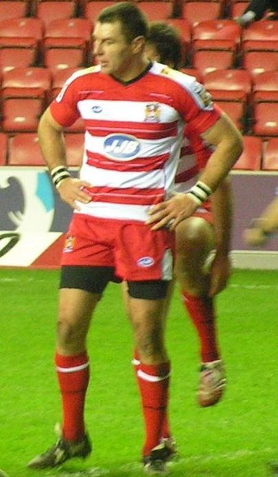 Michael Withers